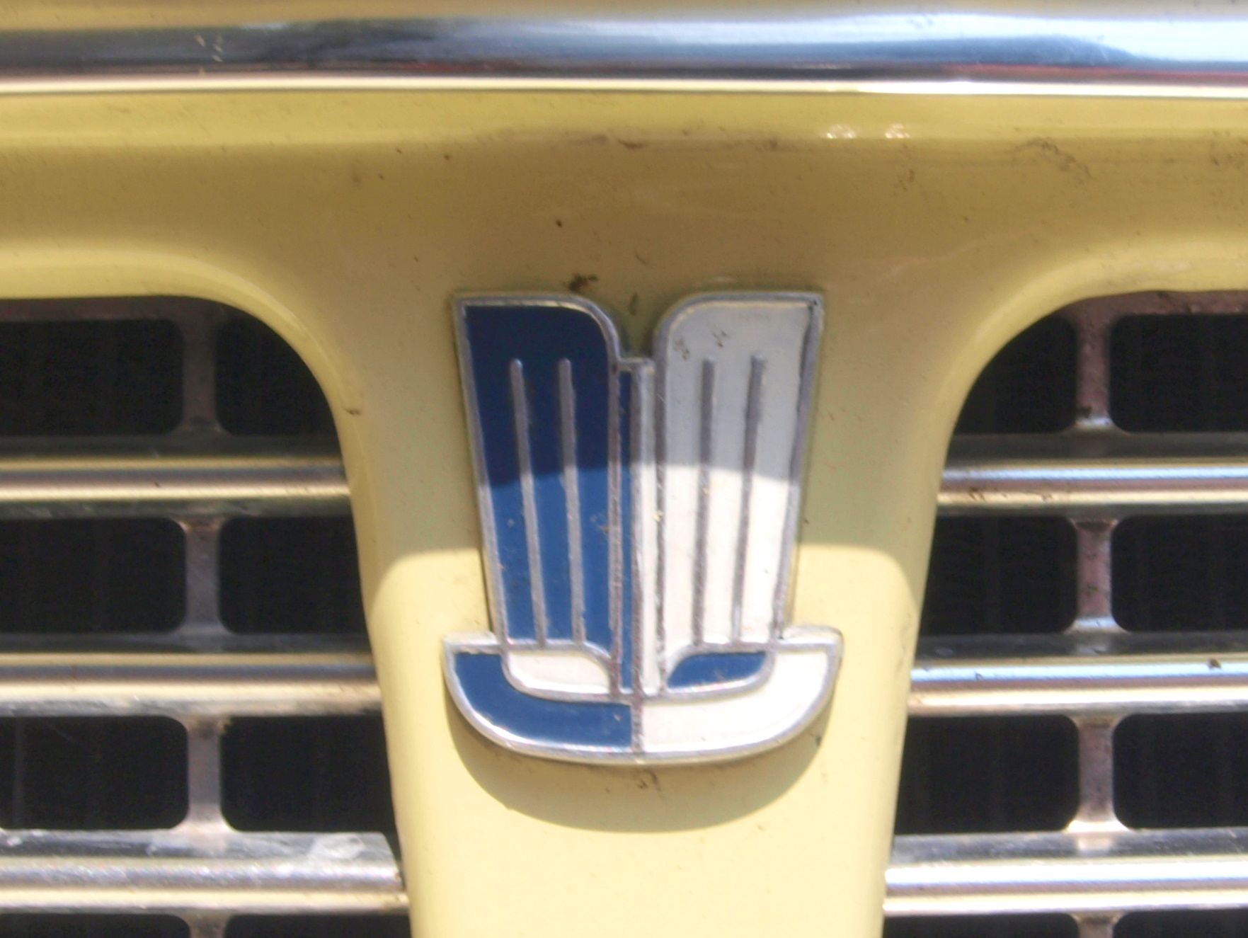 Photographed at Kampen, The Netherlands. OLYMPUS DIGITAL CAMERA